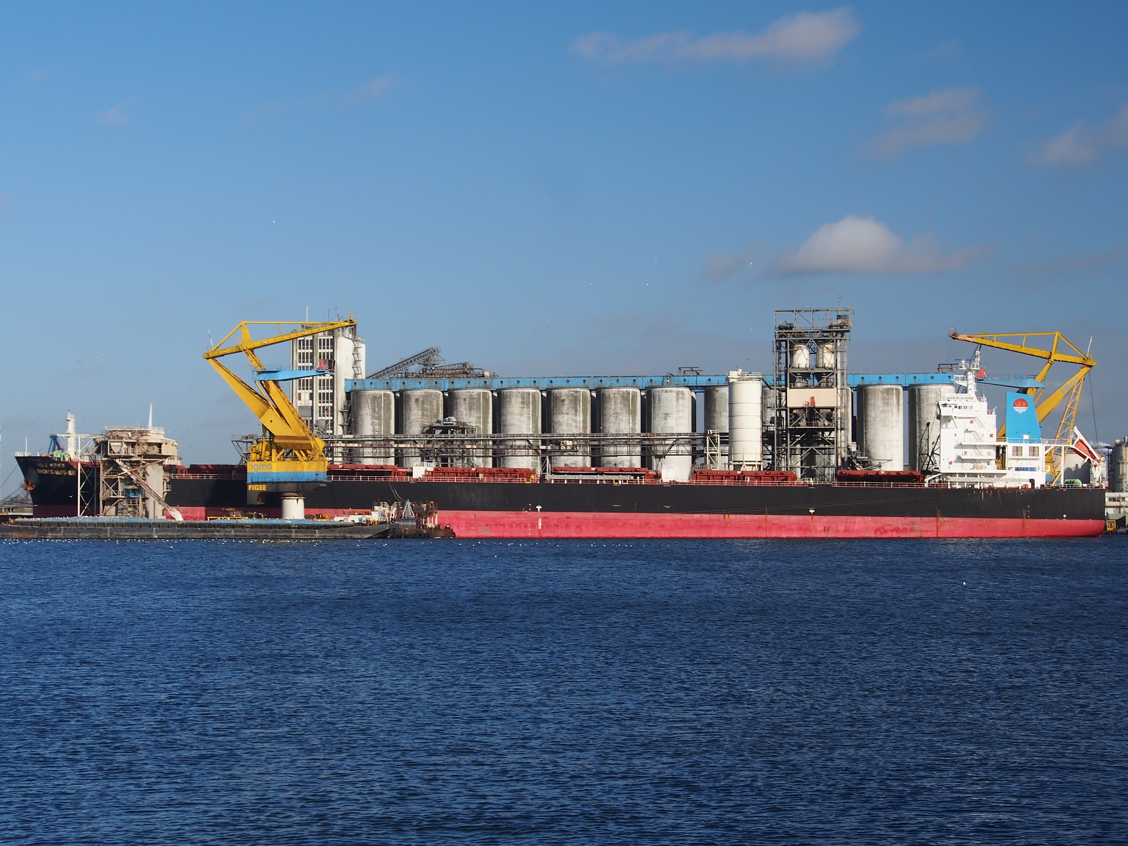 Photographed at the Port of Amsterdam.